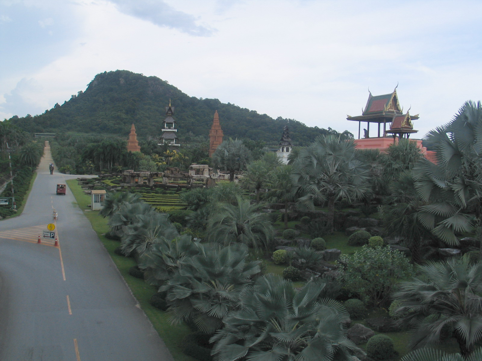 Nong Nooch Tropical Garden